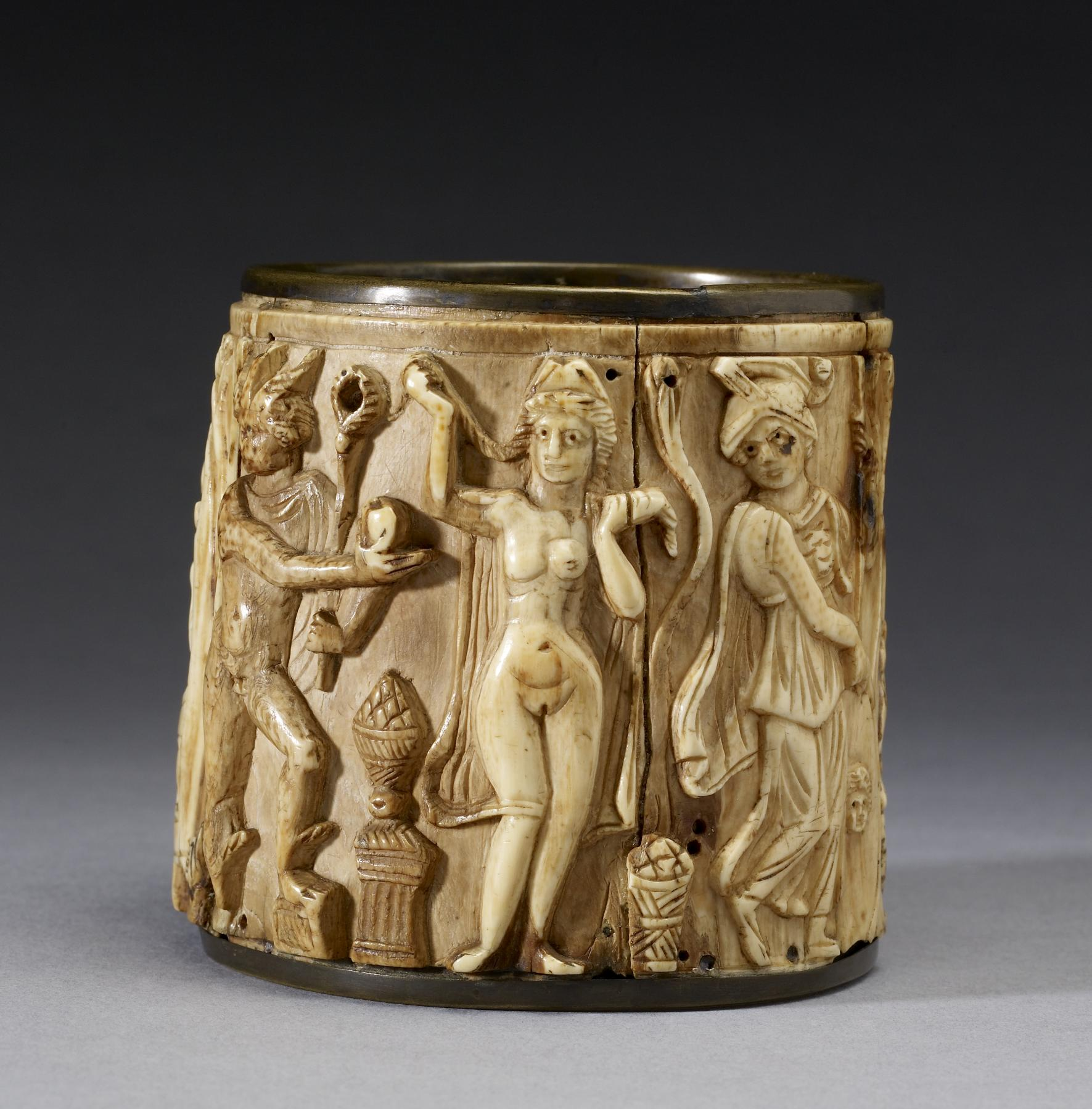 The box is one of a small number to survive from the 4th through 7th centuries, most carved with mythological (pagan) or Christian subjects. Often called "pyxides" (Greek for "boxes"), they served a variety of functions, such as holding incense or a woman's jewelry. The walls of this one contain two episodes from Greek mythology. First, the Olympian gods are seen feasting around a tripod table and holding the golden Apple of the Hesperides. In the next scene, Hermes, is presenting the apple to Aphrodite, chosen by Paris over Athena and Hera (shown to her sides) as the most beautiful among goddesses.